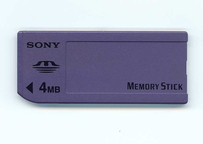 Sony Memory Stick 4MB MSA-4A